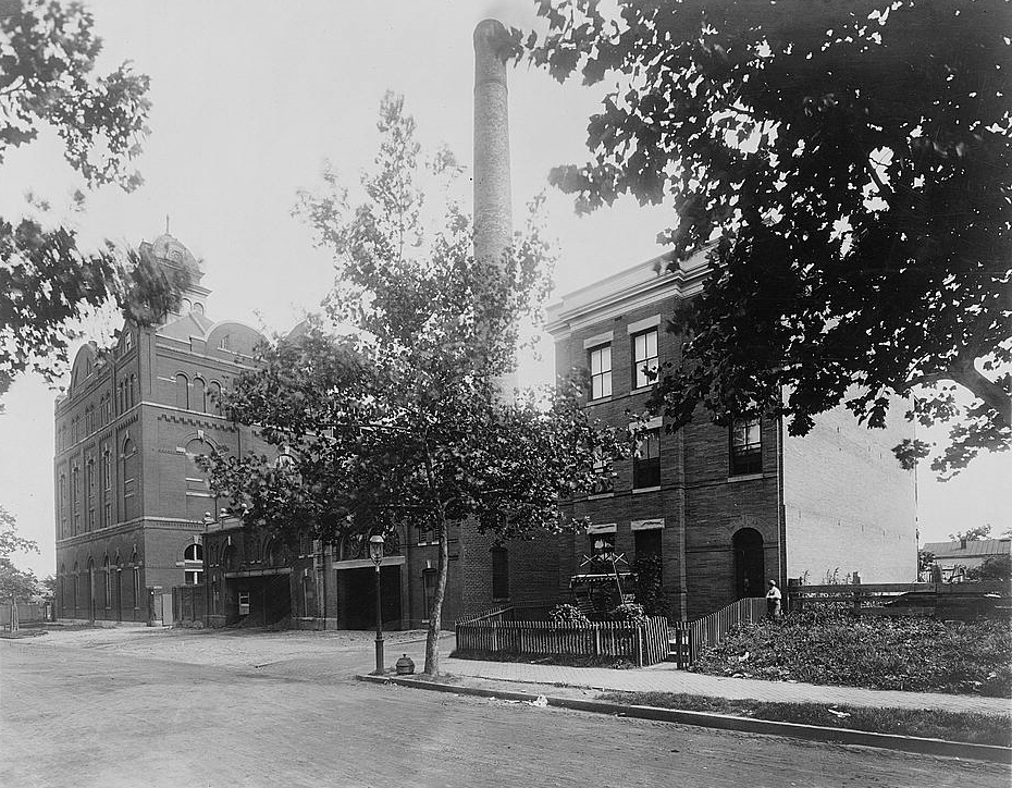 [Exterior view of the National Capital Brewing Company building, Washington, D.C.]